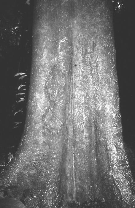 Njansang/Njangsa tree trunk Ricinodendron heudelotii